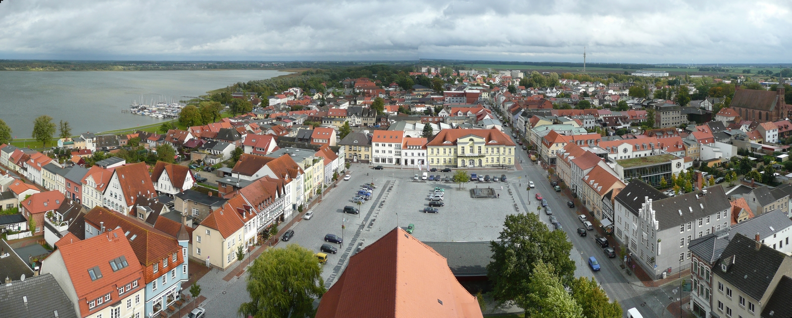 panorama of the eastern part of Ribnitz-Damgarten (view from the St. Mary's Church).